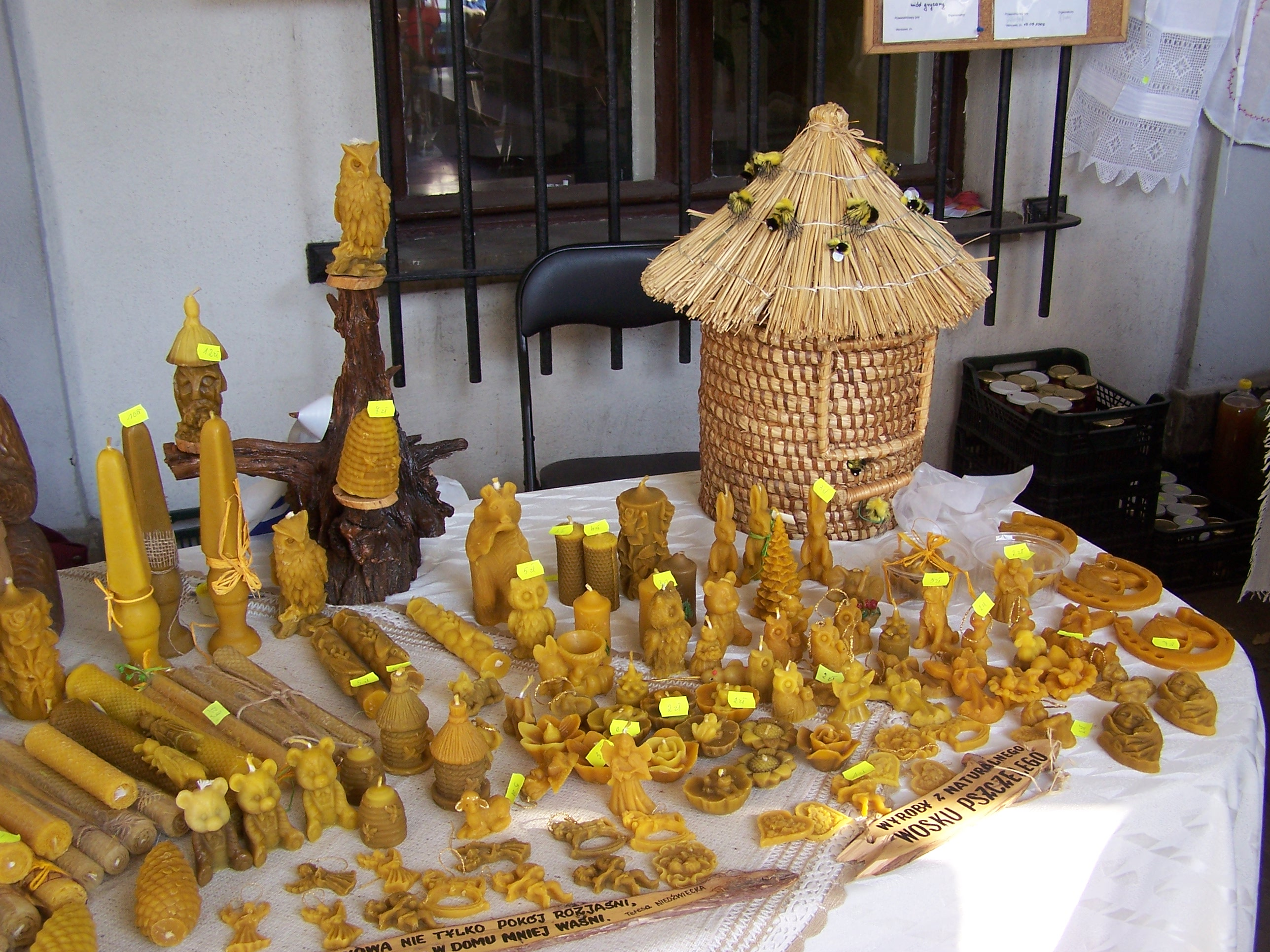 Beeswax art